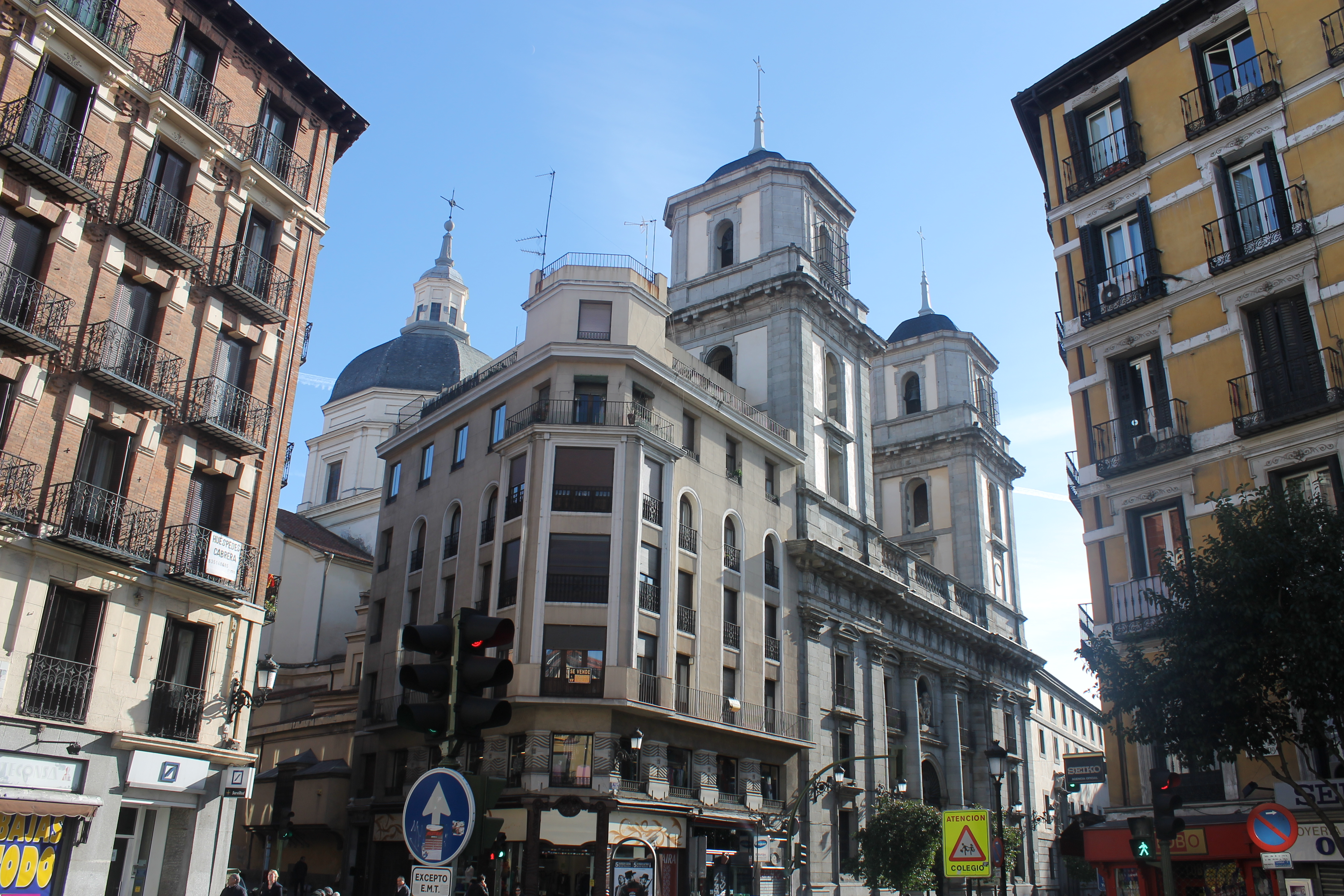 San Isidro Church in Madrid